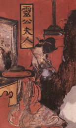 Duchess Nan Zi (南子), wife of Duke Ling of Wey, from a lacquer painting over wood.